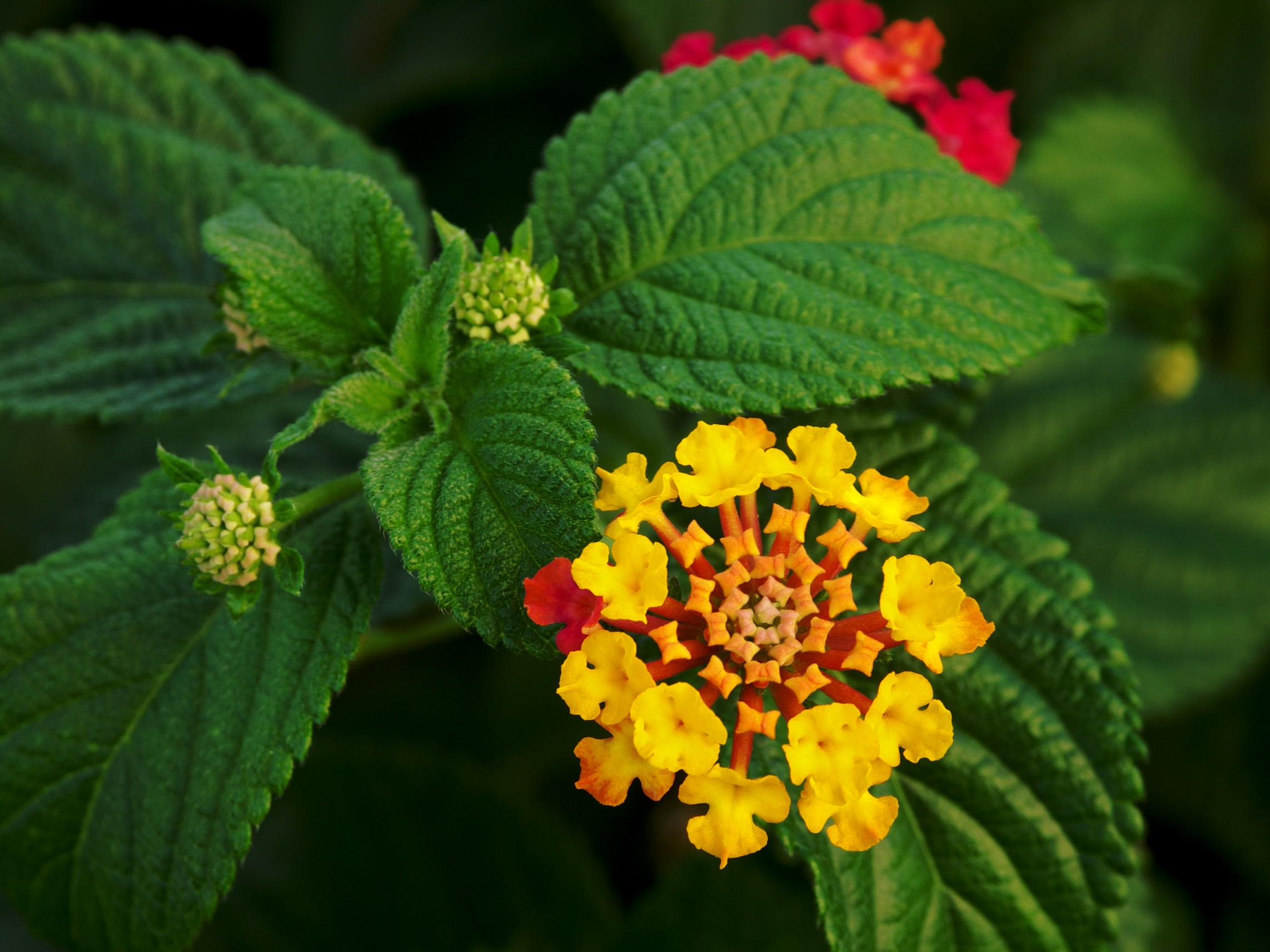 Flower and leaves of Lantana camara